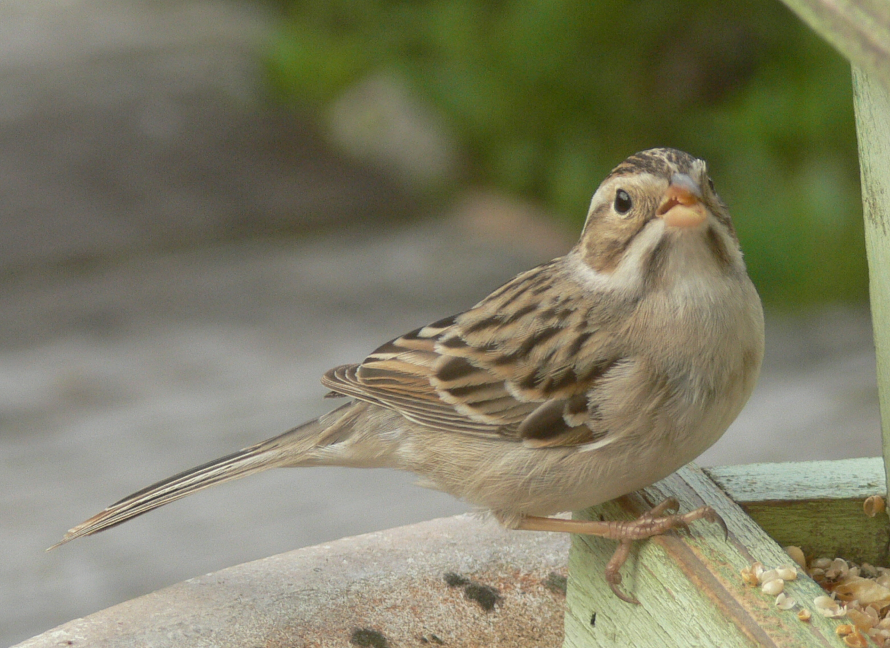 Spizella pallida, San Luis Obispo, California